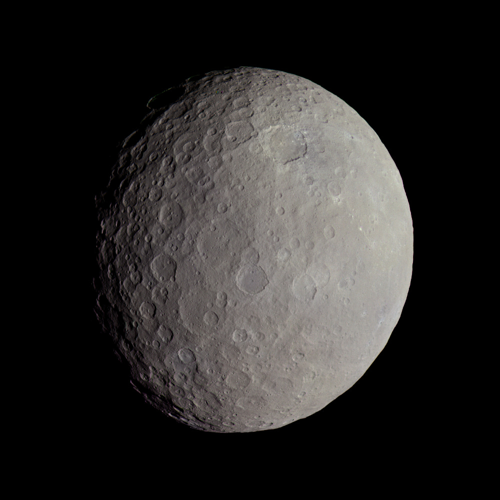 Approximate true-color image of Ceres, using the F7 ('red'), F2 ('green') and F8 ('blue') filters, projected onto a clear filter image. Images were acquired by Dawn at 11:18 UT May 4, 2015, at a distance of 13637 km. At the time, Dawn was over Ceres' northern hemisphere. The large crater exposing white material near top center is Dantu. Smaller white spots appear to be ejecta rays from Dantu.